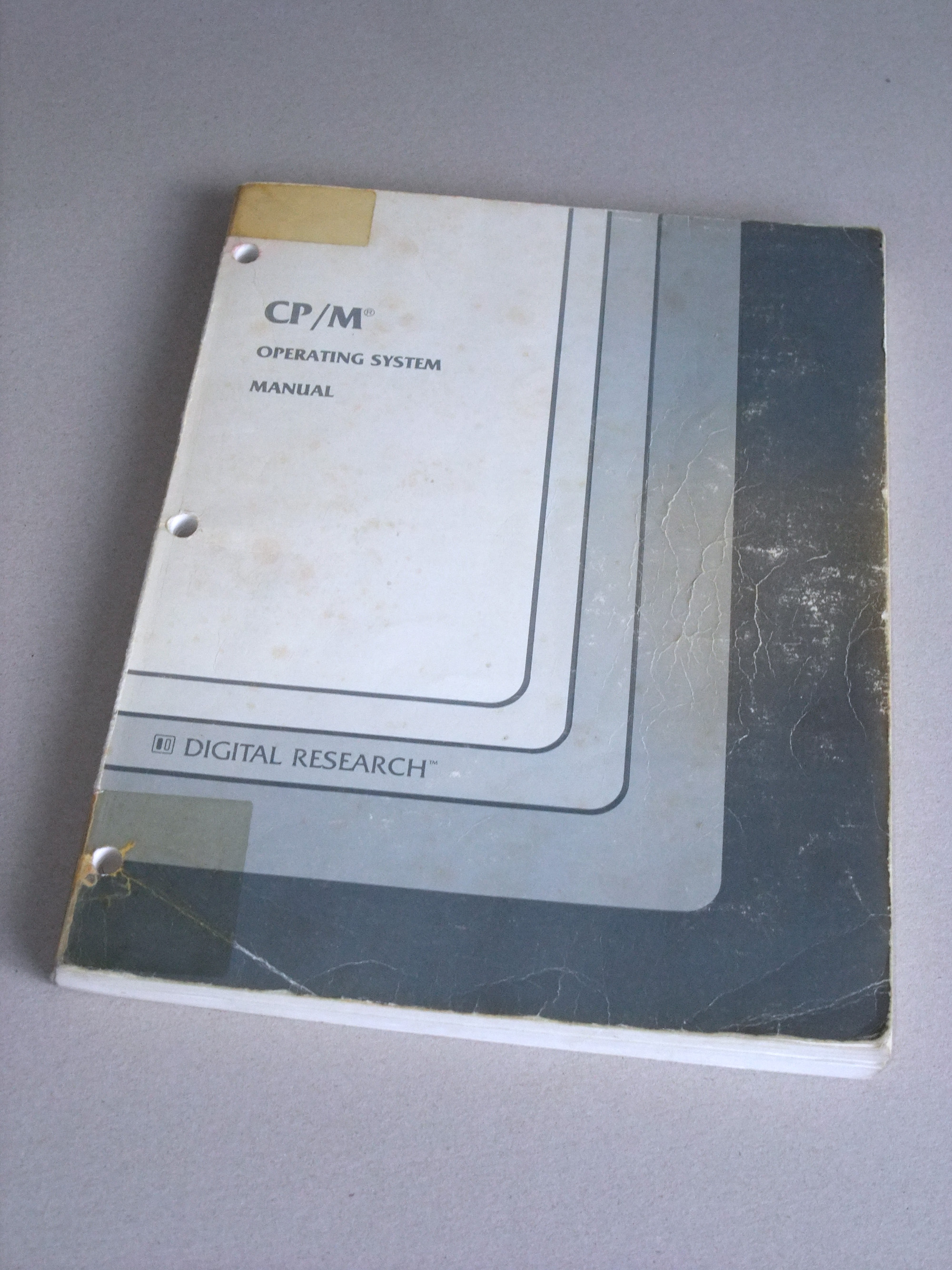 CP/M operating system manual, 1982